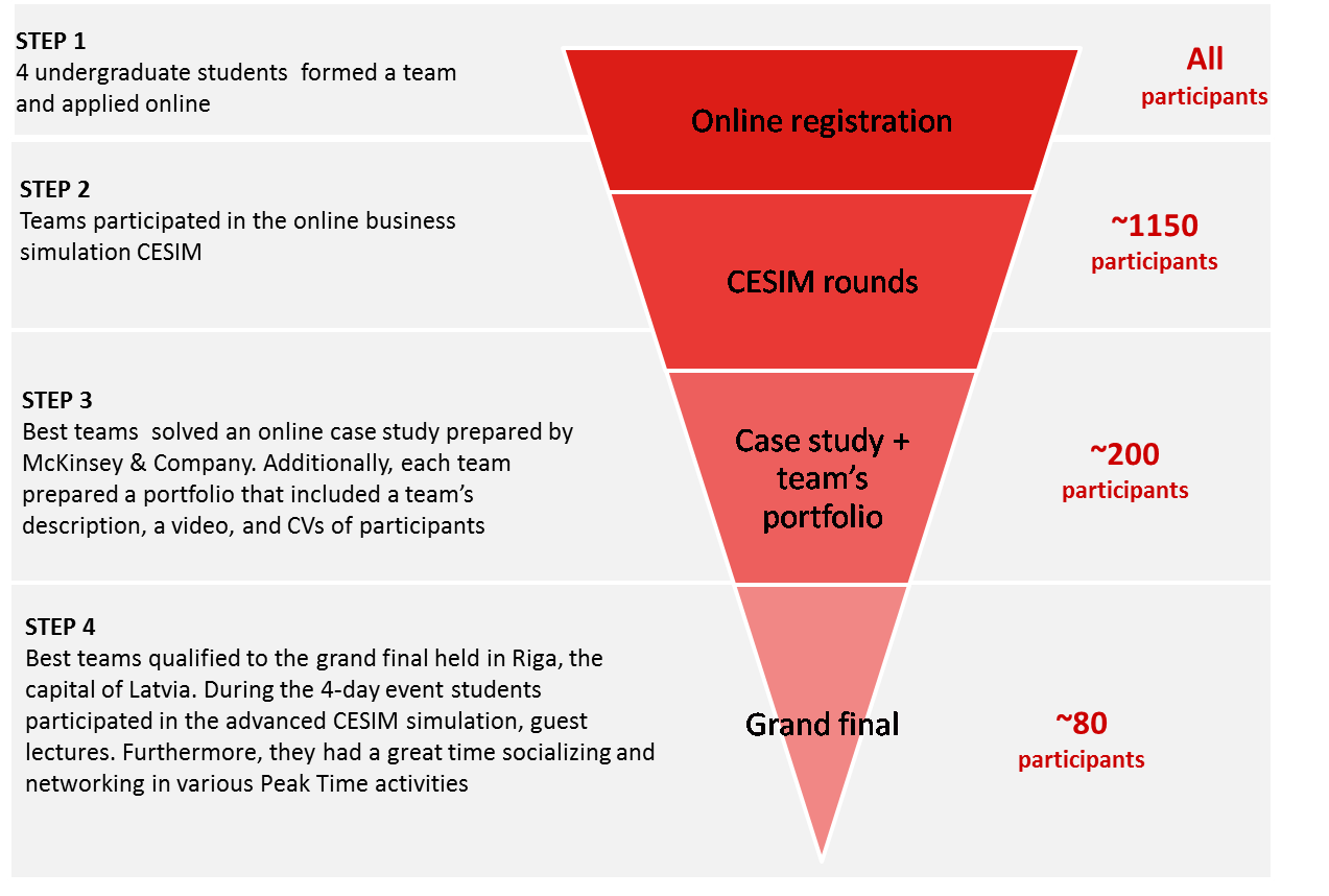 Competition process